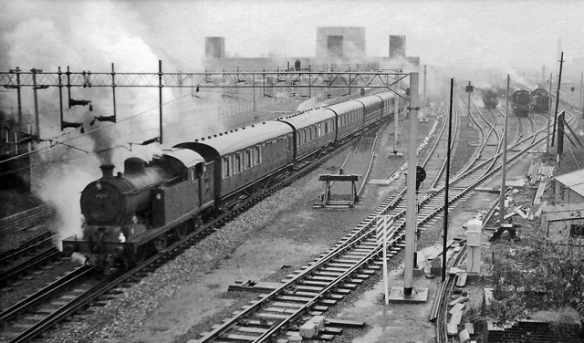 Broxbourne & Hoddesdon Station, with train. View northward, towards Bishop's Stortford and Cambridge (and Hertford East); ex-Great Eastern London - Cambridge main line, junction of branch to Hertford East. The photograph hardly shows the station, which was newly rebuilt, but features one of the last steam-hauled Hertford - Liverpool St. locals (hauled by a Class N7 0-6-2T) leaving. Electric trains had begun to run from Liverpool St. to Hertford and Bishop's Stortford three days before on 14 November. Note that there are three more steam locomotives in the sidings to the right.